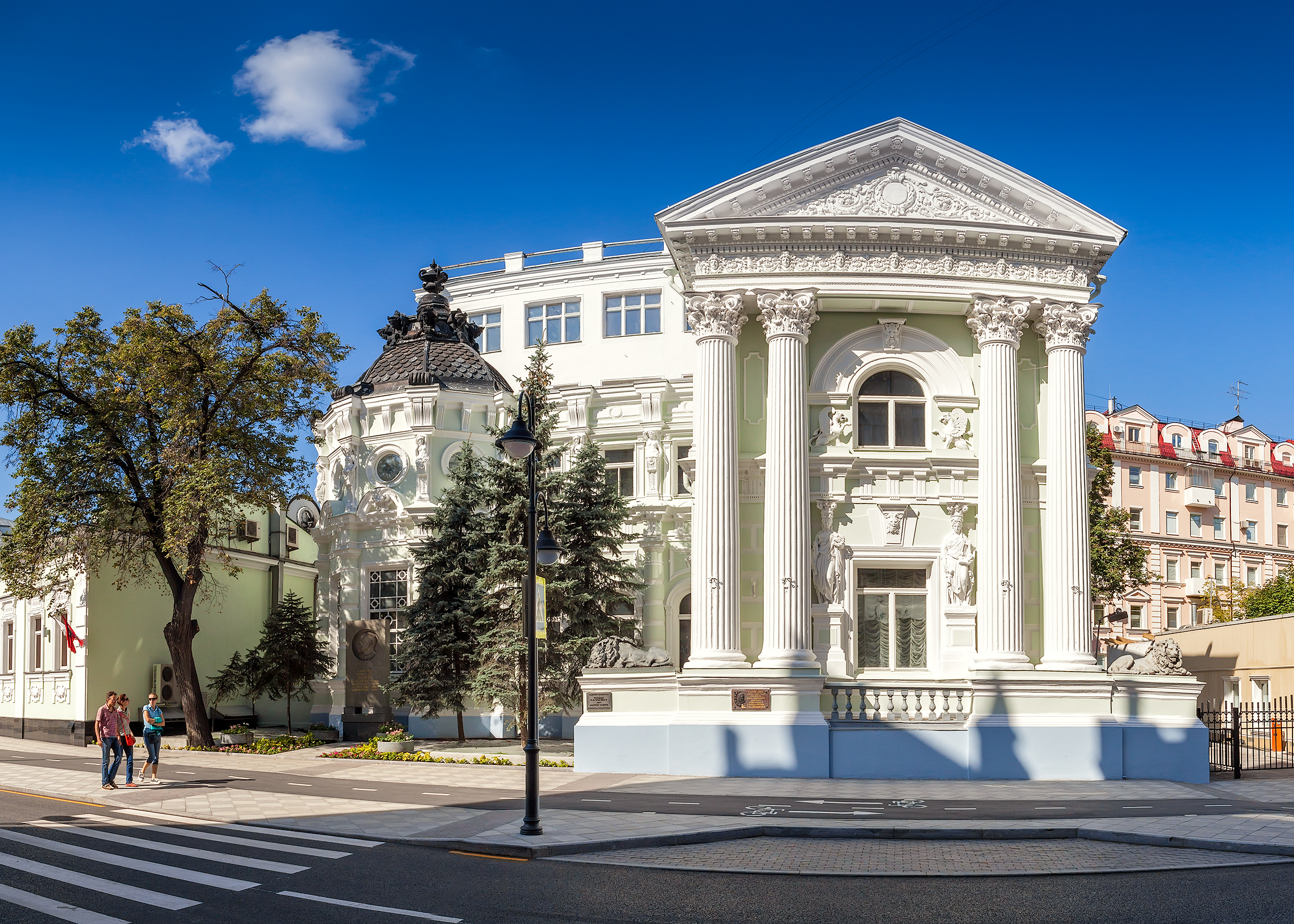 Vilgelmina (Minna) Von Rekk mansion at Pyatnitskaya street in Moscow, Russia.